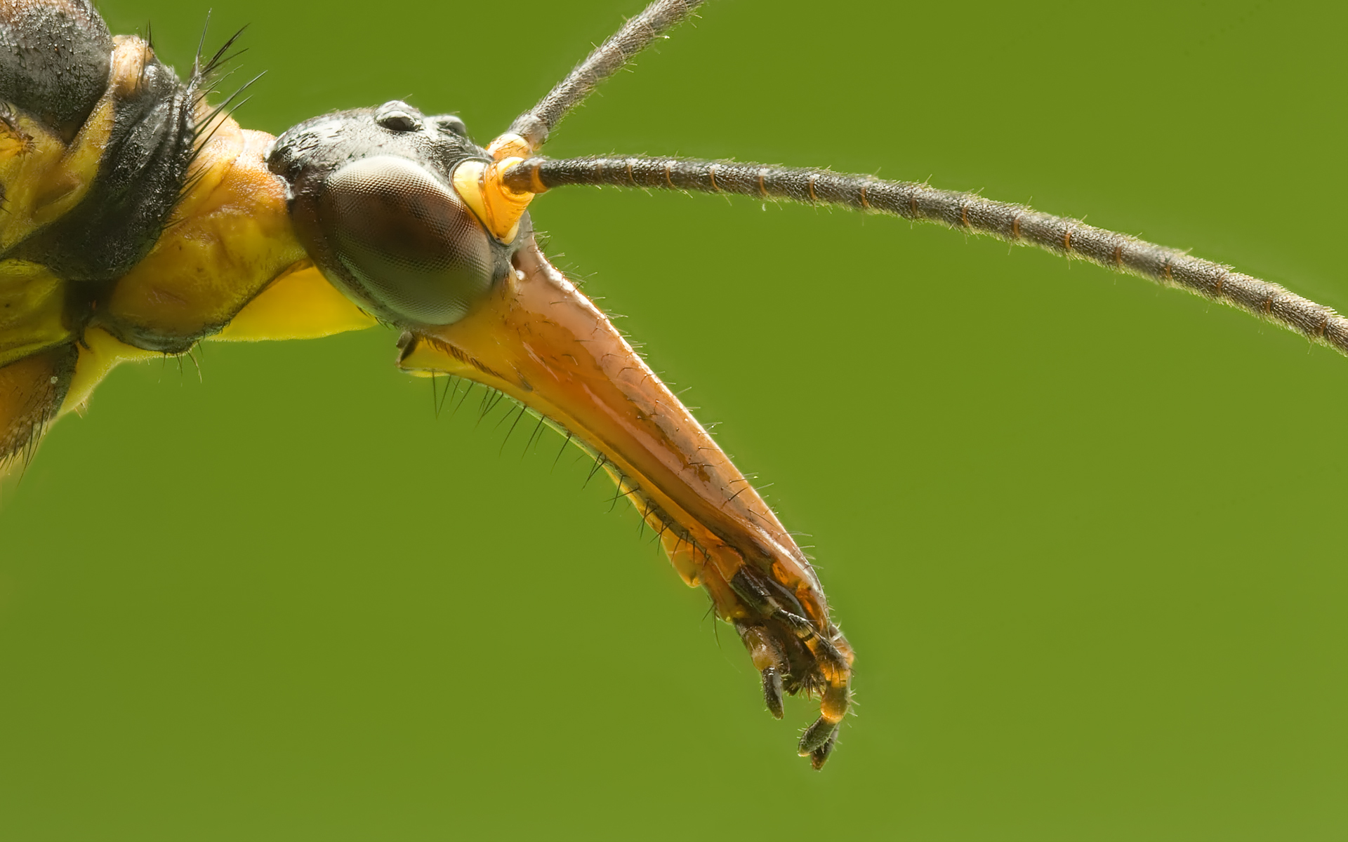 Scorpion Fly (Panorpa communis) Panorpa is a genus of scorpionflies that is widely dispersed in the Northern hemisphere.